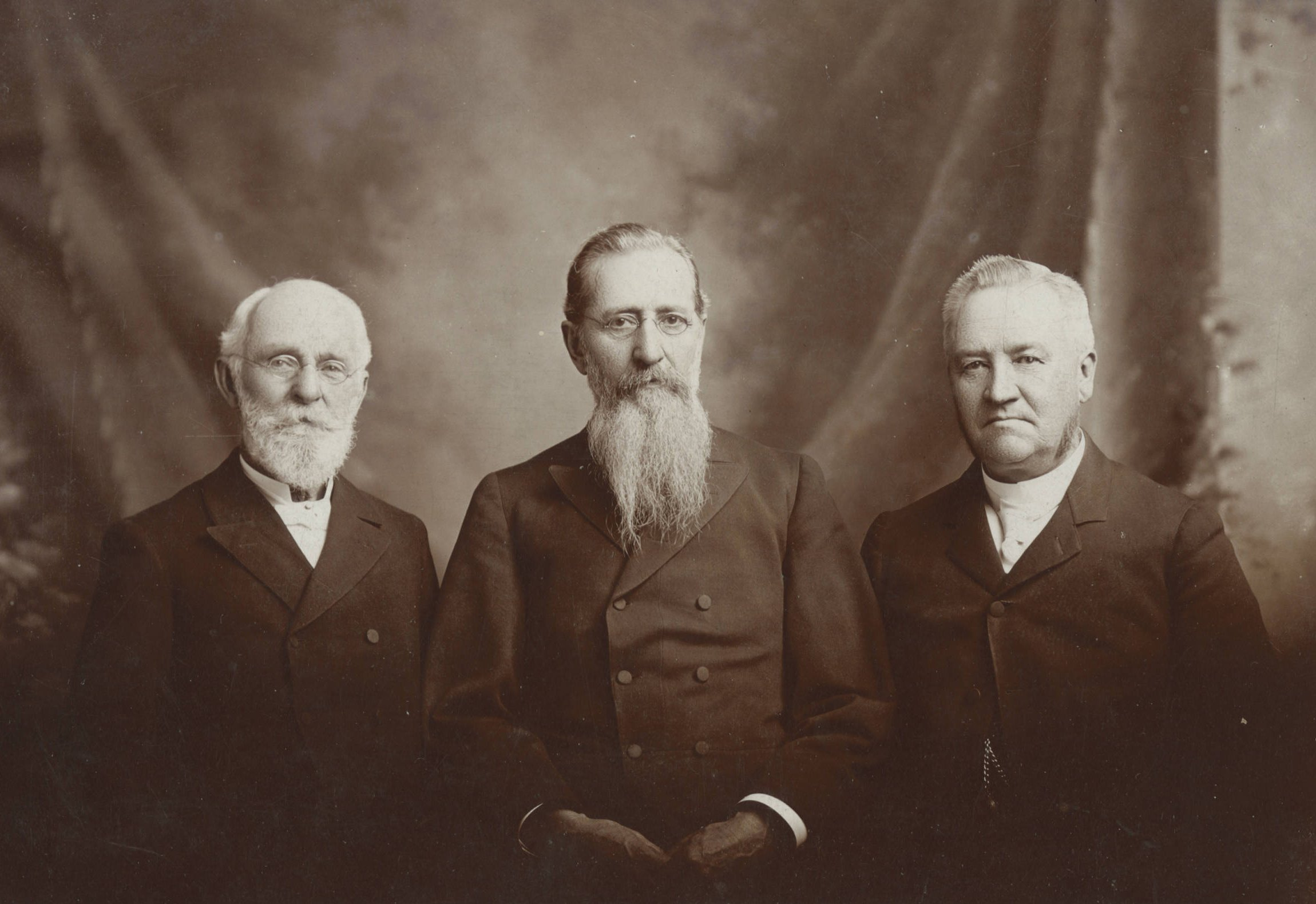 The First Presidency in 1905. From left to right: John Rex Winder, Joseph Fielding Smith, and Anthon Hendrik Lund.